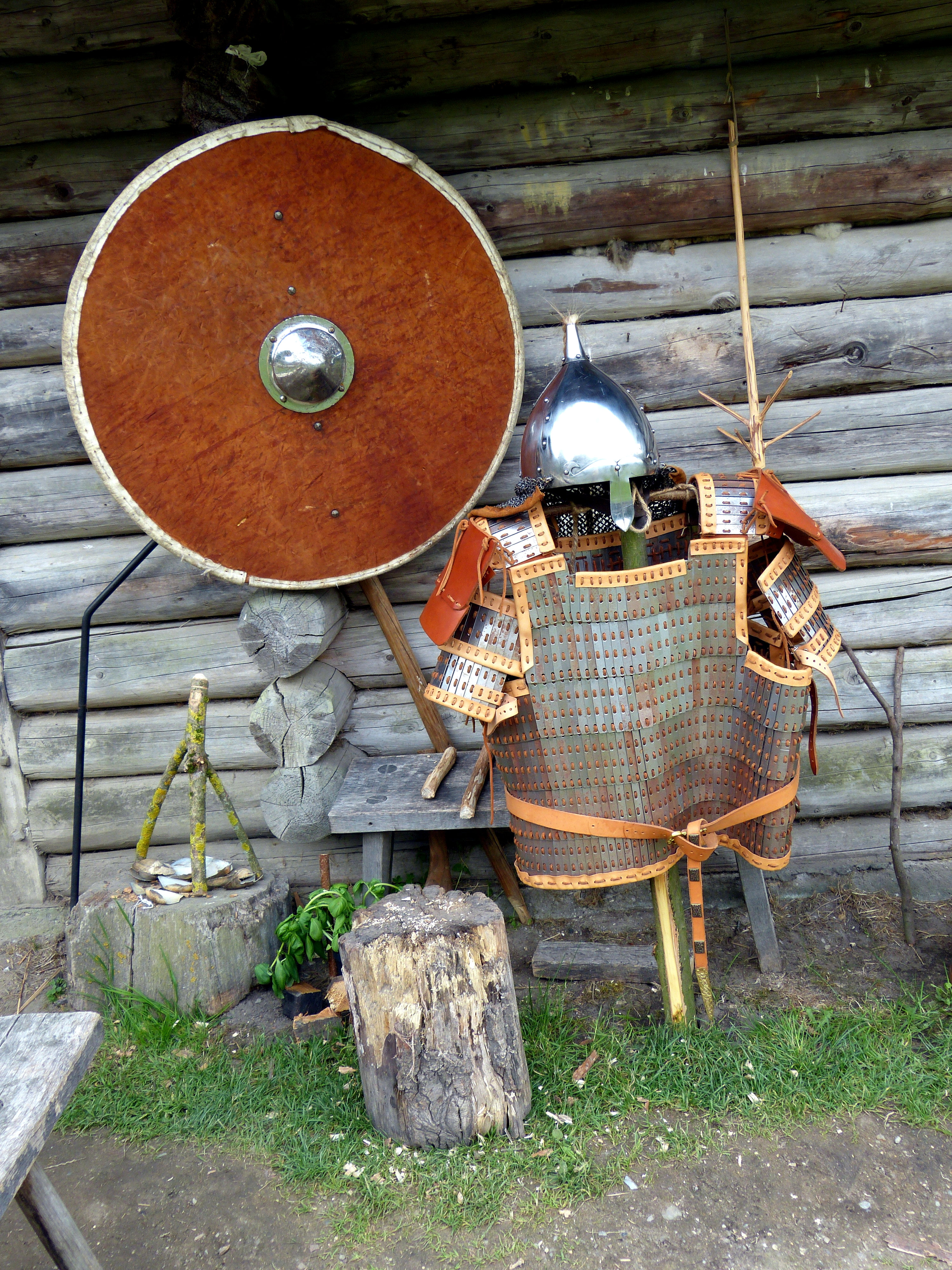 Groß Raden ( Mecklenburg ). Reconstruction of a Slavic settlement: Medieval Slavic armour.